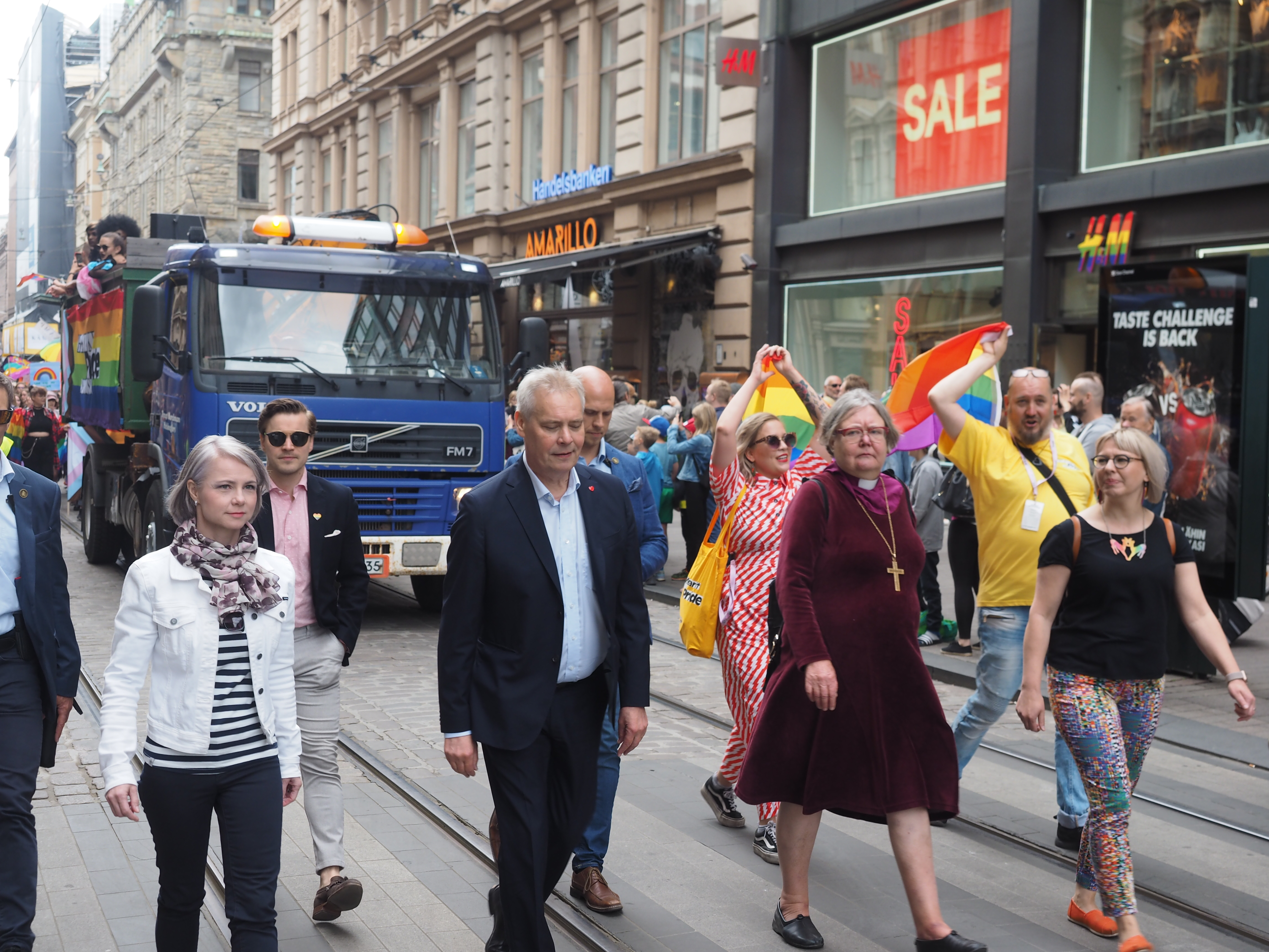 Prime Minister of Finland Antti Rinne (centre-left, in dark blue suit and white shirt), former Bishop of Helsinki Irja Askola (to the right of Rinne, in burgundy robes and cross), and Minister of Social Affairs and Health Aino-Kaisa Pekonen (to the right of Askola) marching at the Helsinki Pride 2019 parade in central Helsinki, Finland.